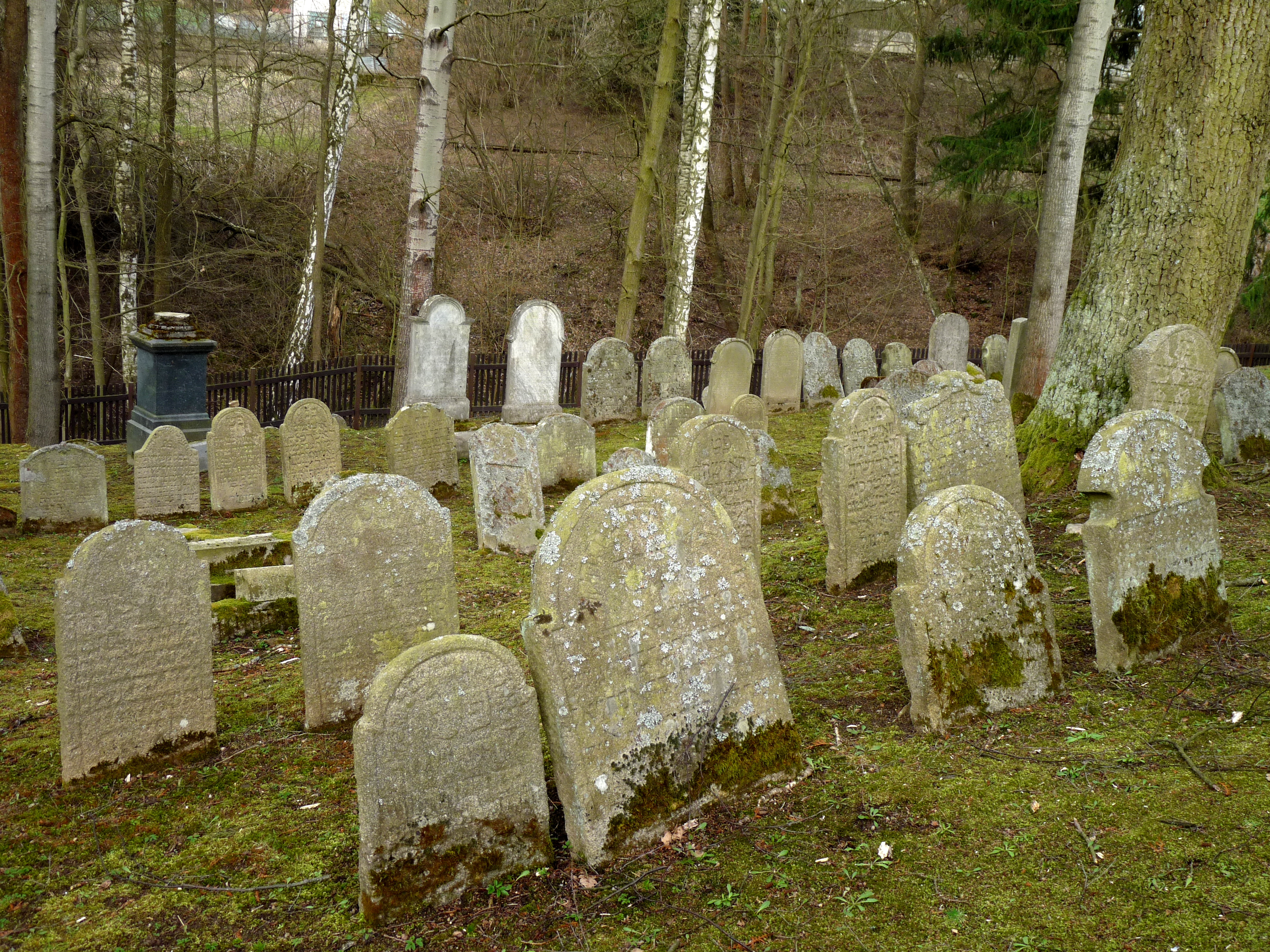 Gravestones in the Jewish cemetery in the town of Ledeč nad Sázavou, Havlíčkův Brod District, Vysočina Region, Czech Republic.